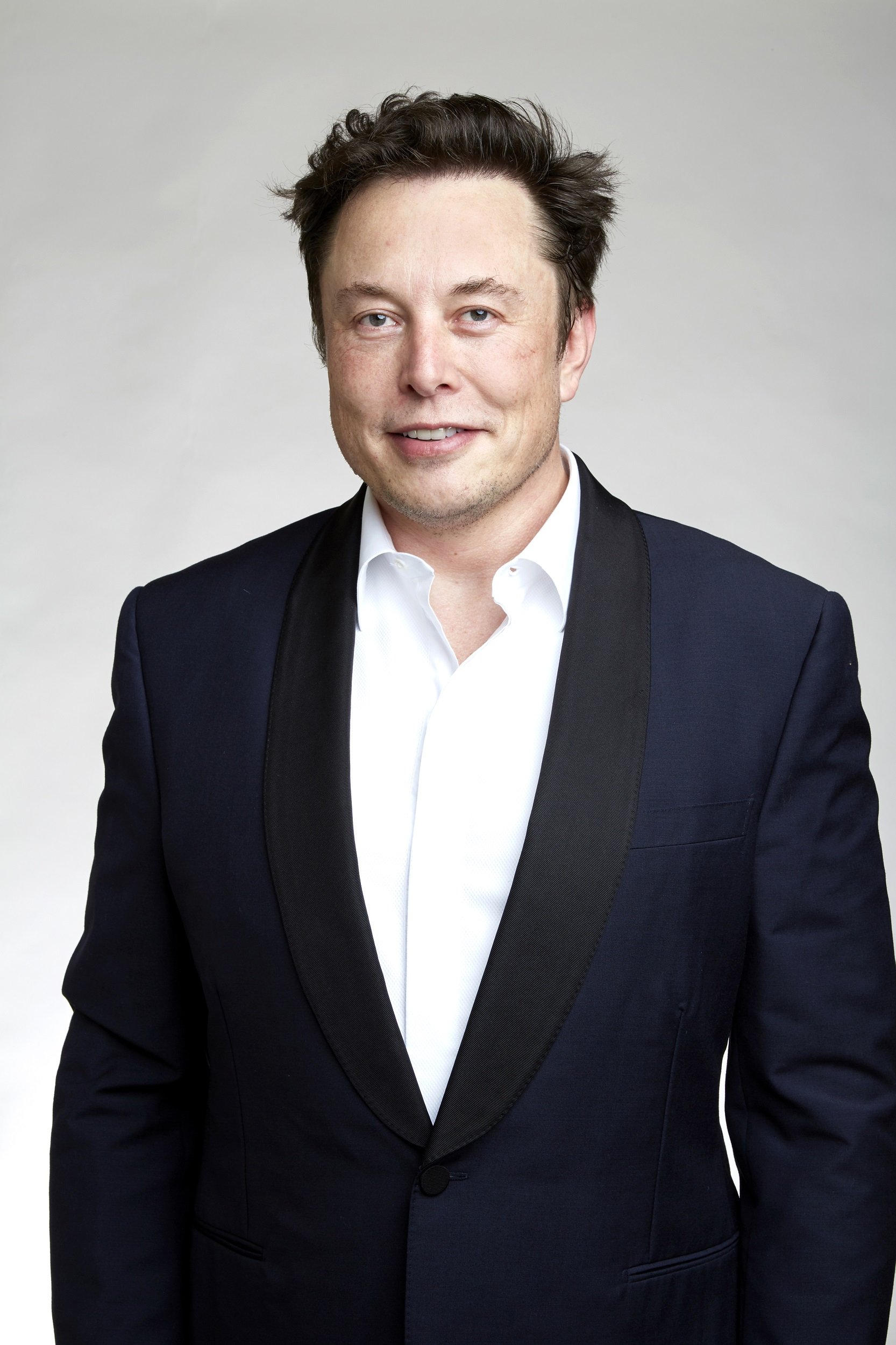 Elon Musk is a technology entrepreneur, investor, and engineer.